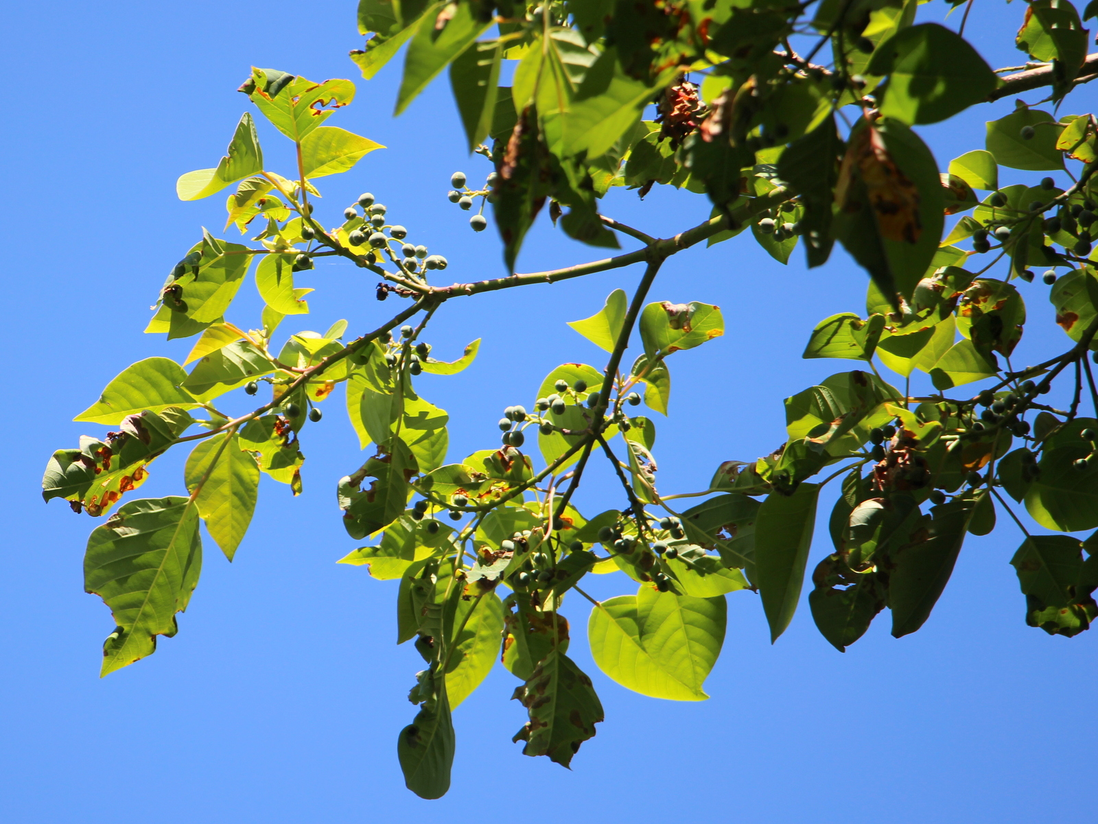 likely to be Homalanthus novoguineensis Northern Bleeding Heart. Royal Botanic Gardens, Sydney